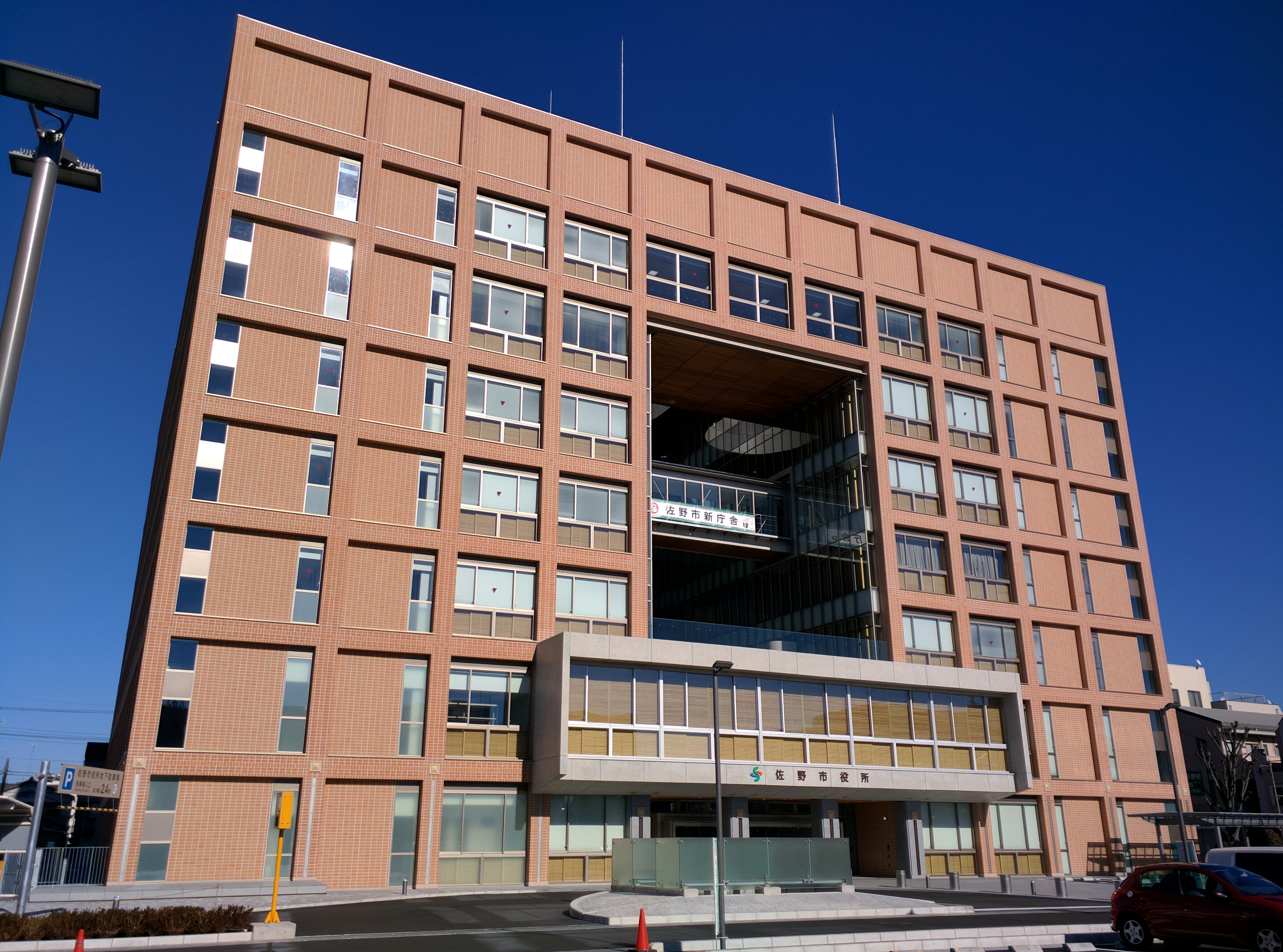 Sano City Hall on January 1, 2016